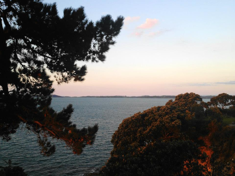 Cliffsides on the bay near Beachlands